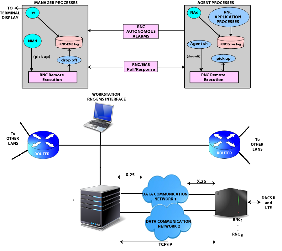 this is a diagram showing the architecture of the RNC element management system